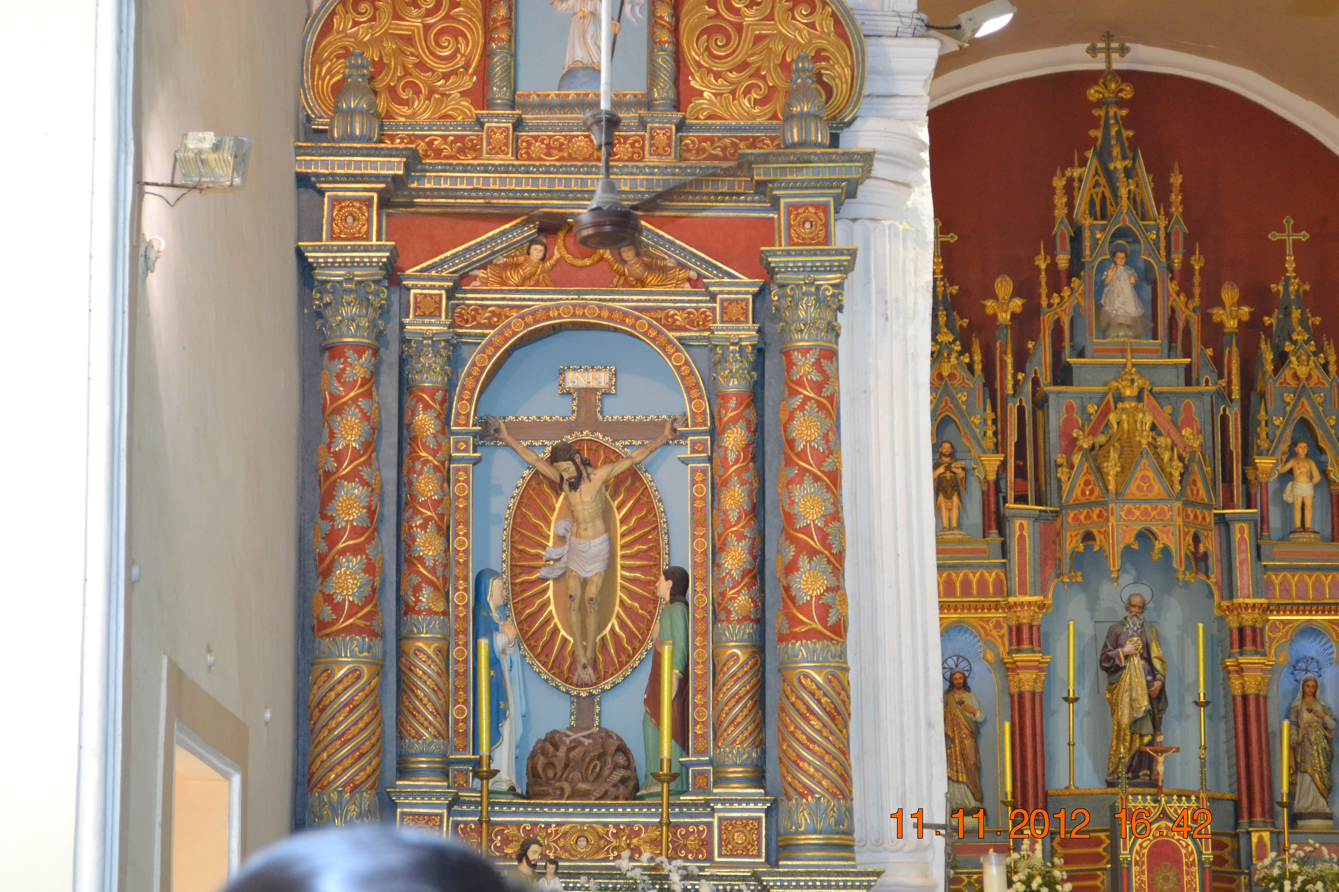 St.Andrews Church Alter